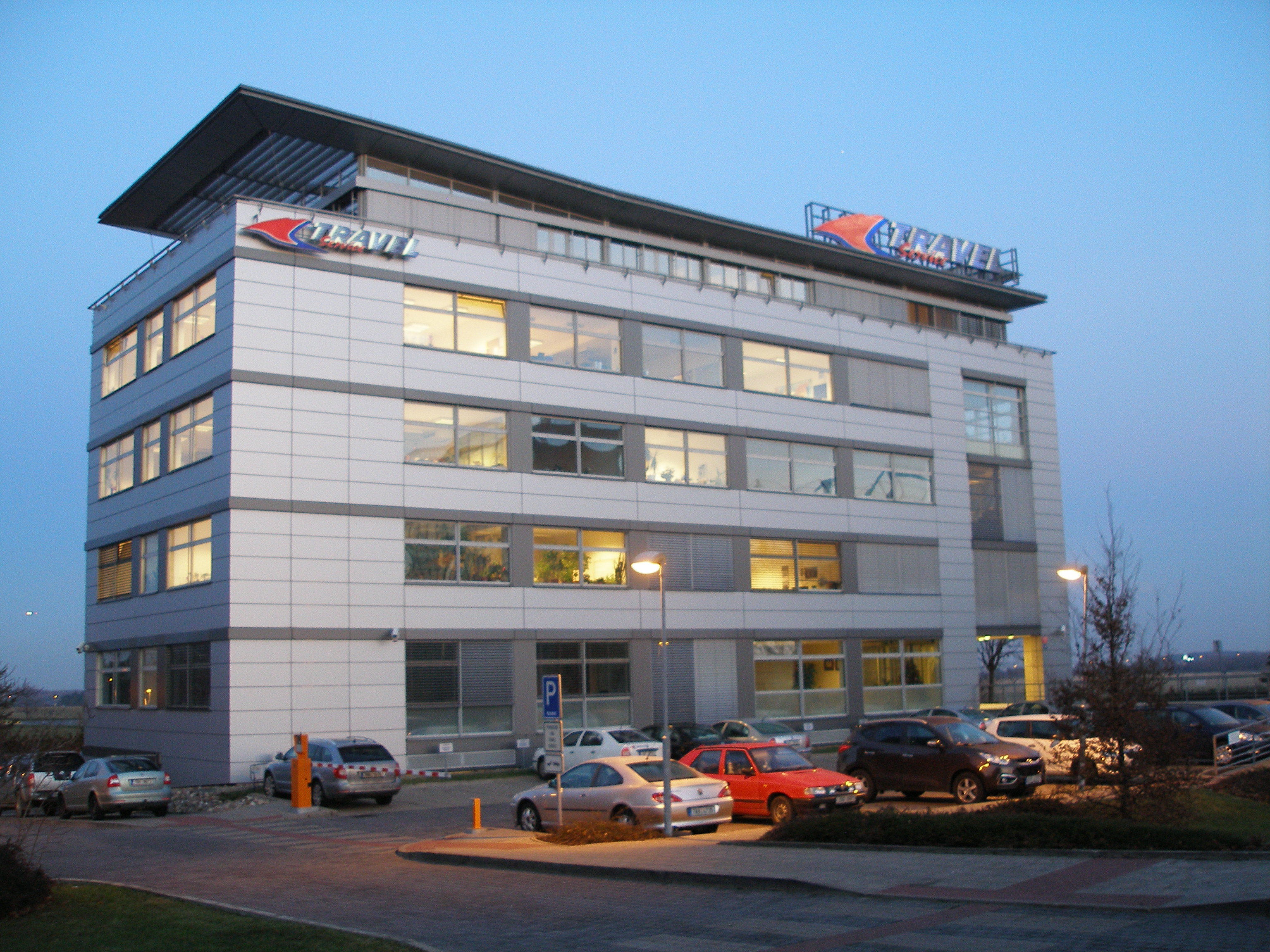 Head office of Travel Service in Prague.